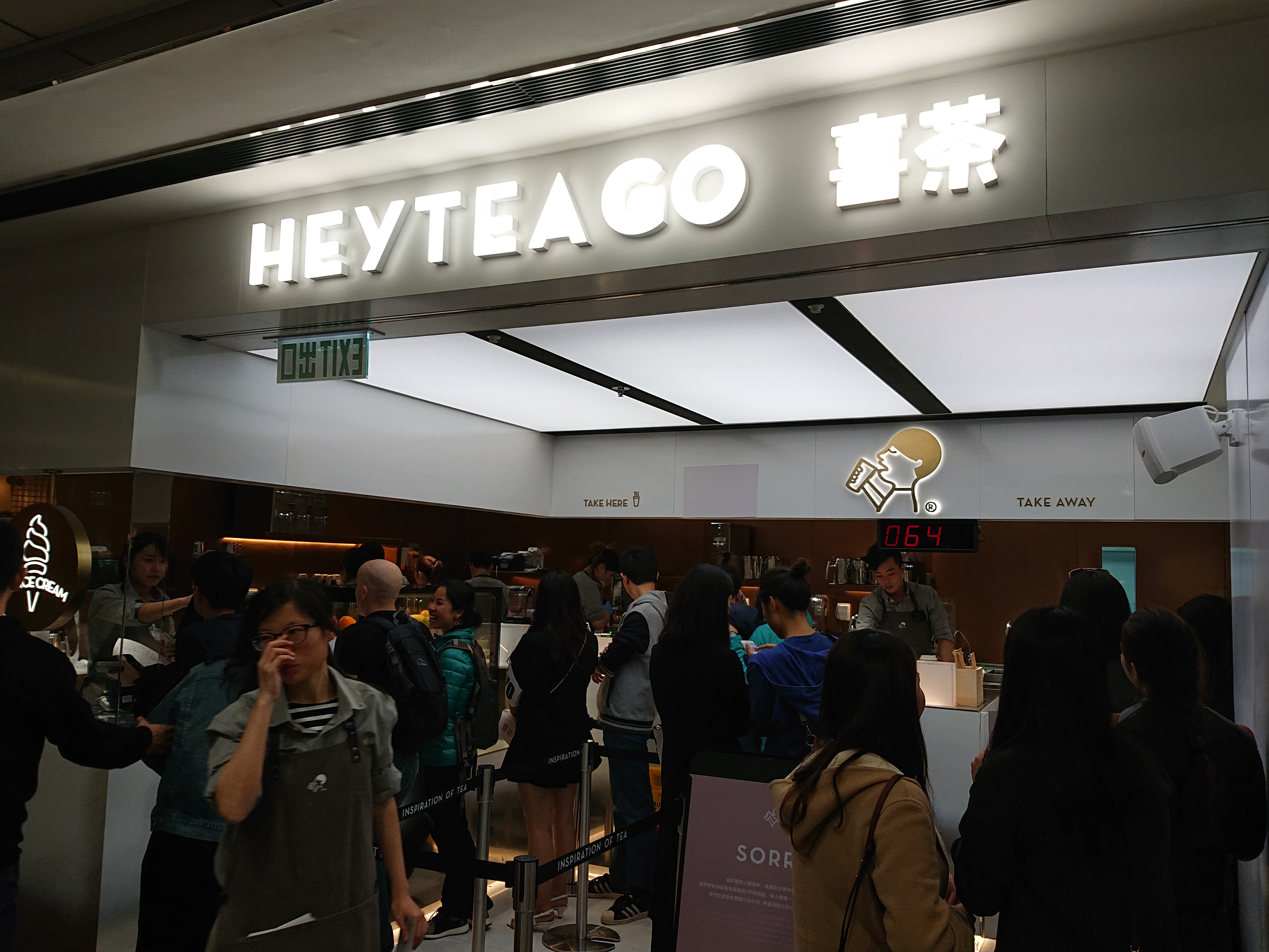 Heytea Hong Kong Causeway Bay Store